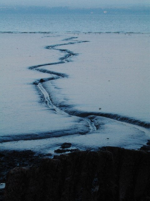 Low tide at Bo'ness. Low tide reveals extensive mudflats at Bo'ness, cut by meandering rivulets, which look very eerie in the blue dusk light. The Fife coast is seen through the gloom.